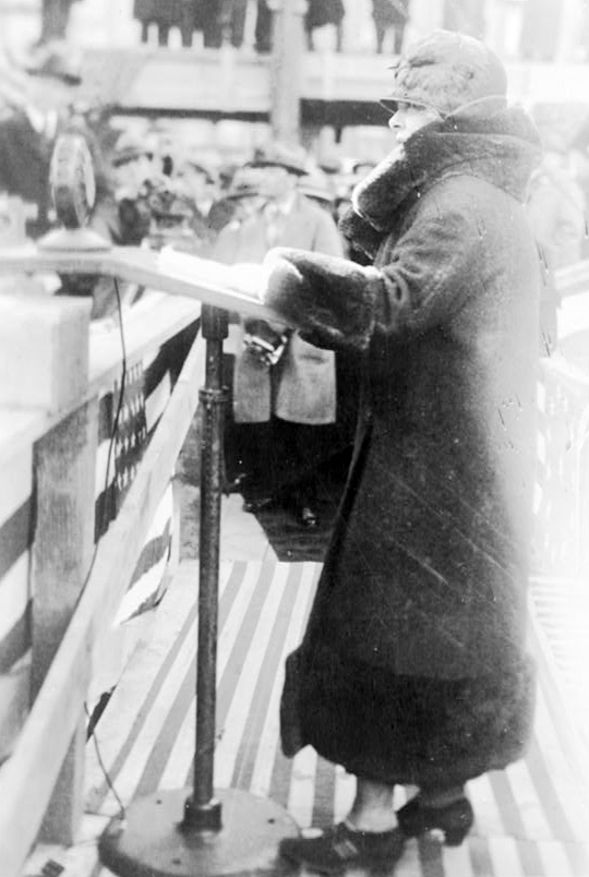 Theresa Helburn (1887–1959) at the laying of the corner-stone of the New York Guild Theatre in 1924.